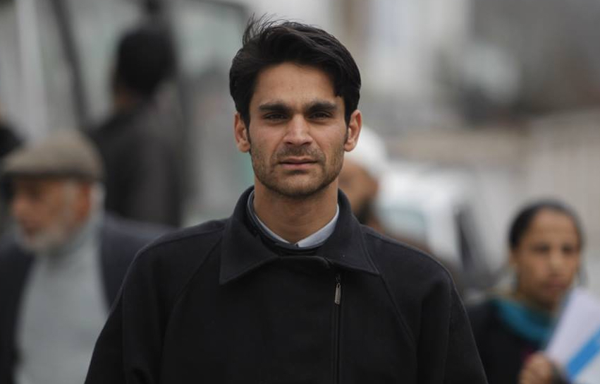 Spokesperson PDP